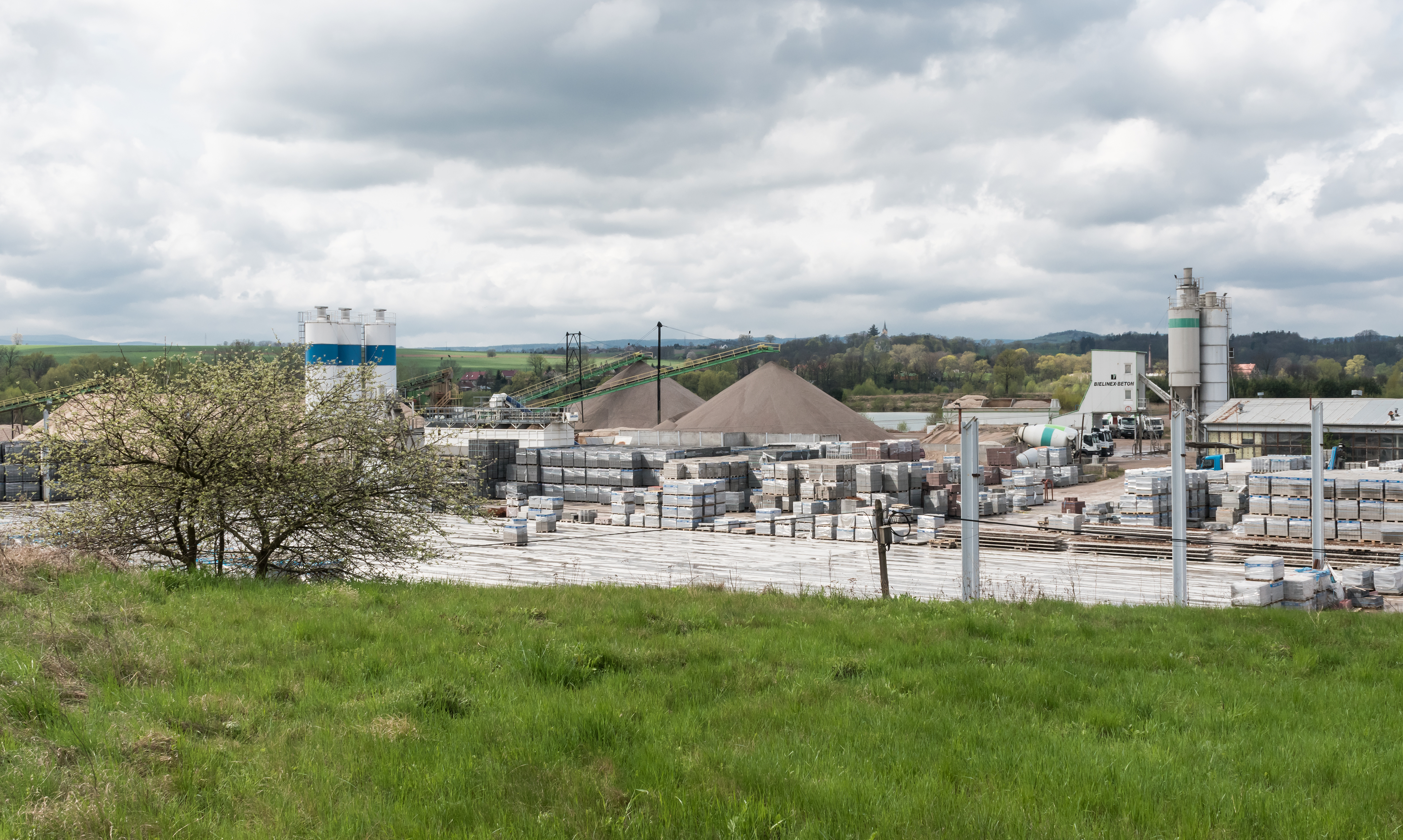 Bielinex-Beton mine in Bierkowice